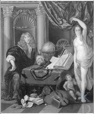 Self-portrait of the artist with his muse